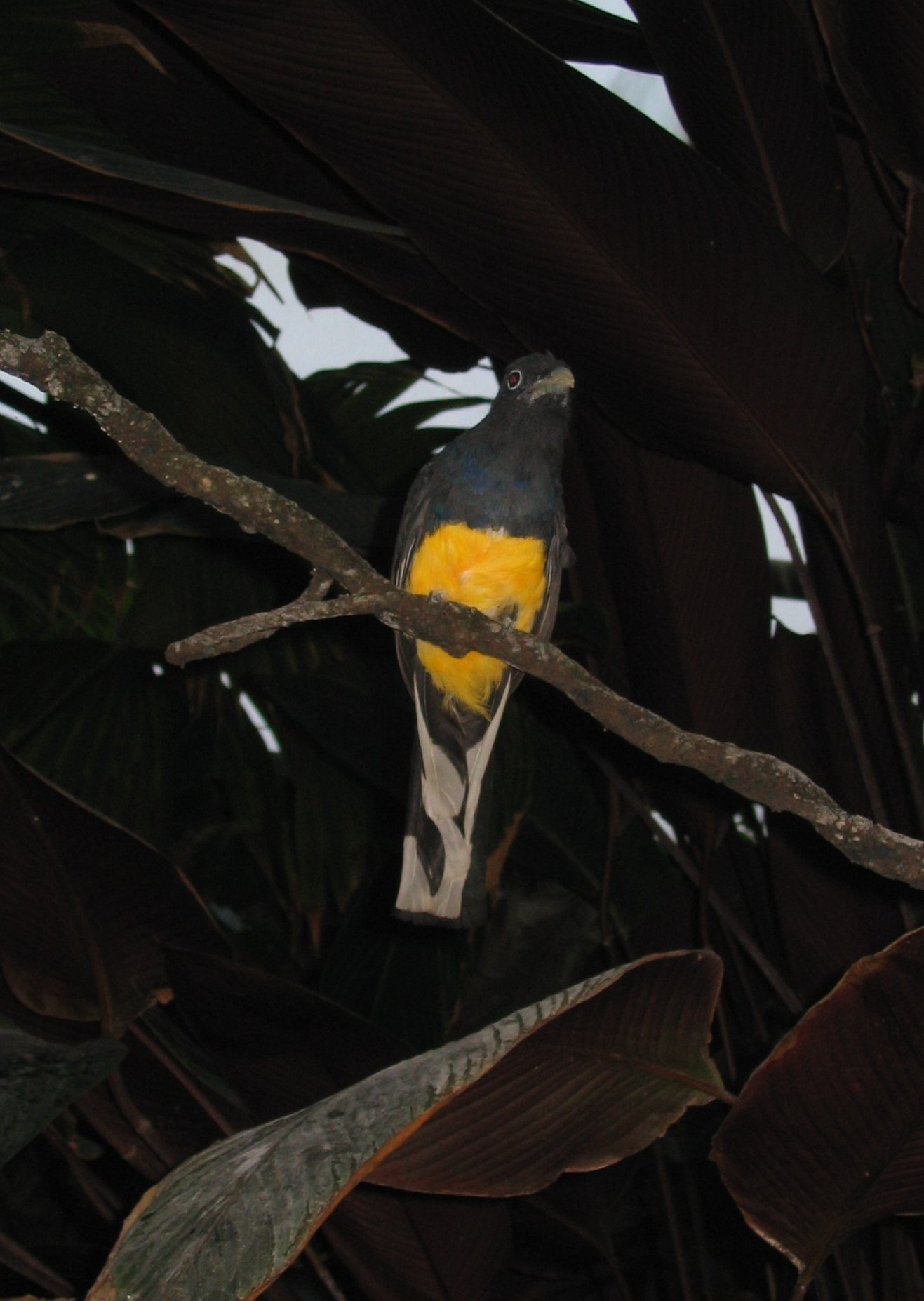 Picture of a Green-backed Trogon (Trogon viridis) I took on a trip to the National Aquarium in Baltimore.